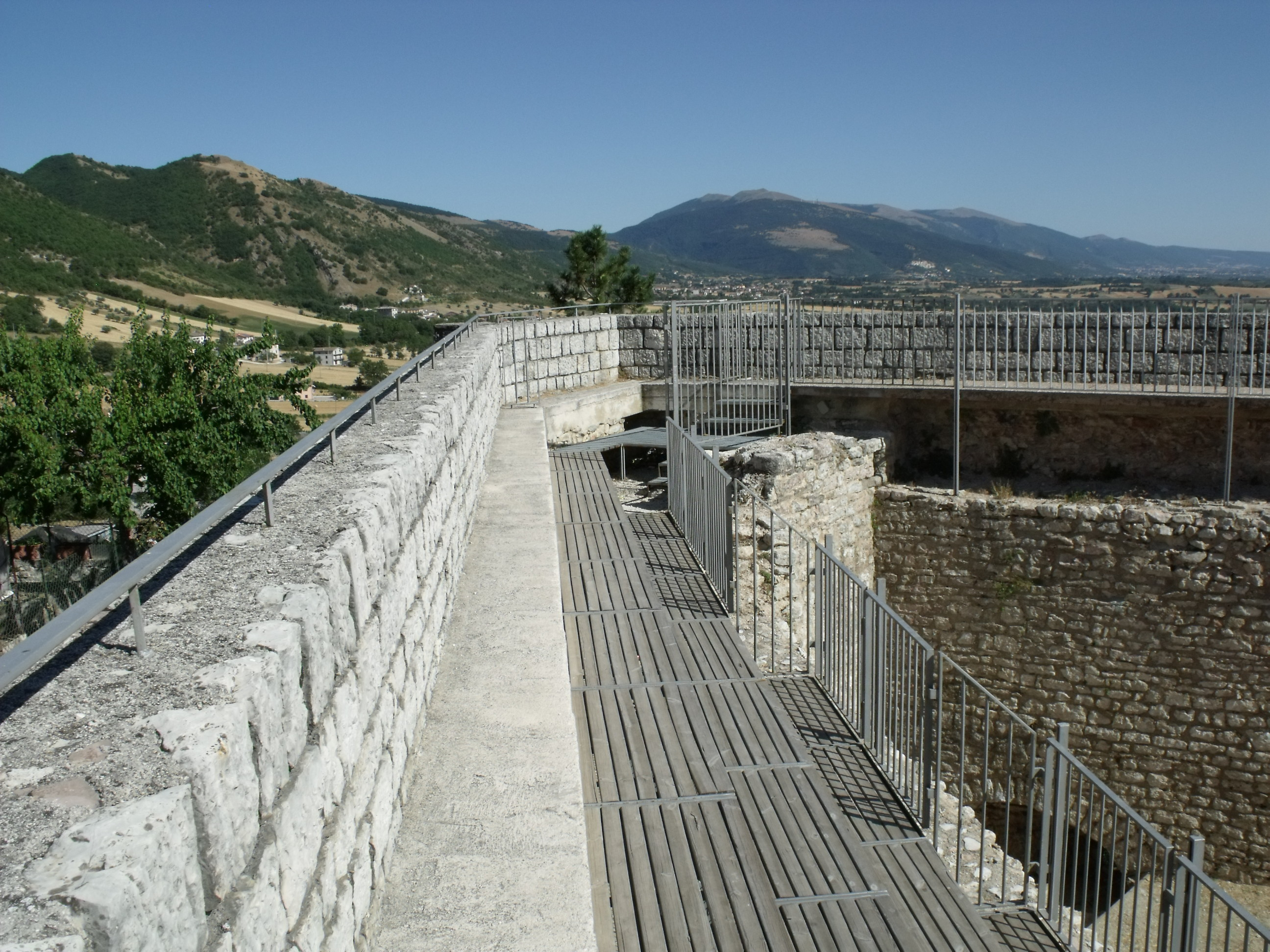 Rocca del Cassero (Fortress) / Rocca Rivellino in Costacciaro, Province of Perugia, Umbria, Italy. Build 1477 by Francesco di Giorgio Martini